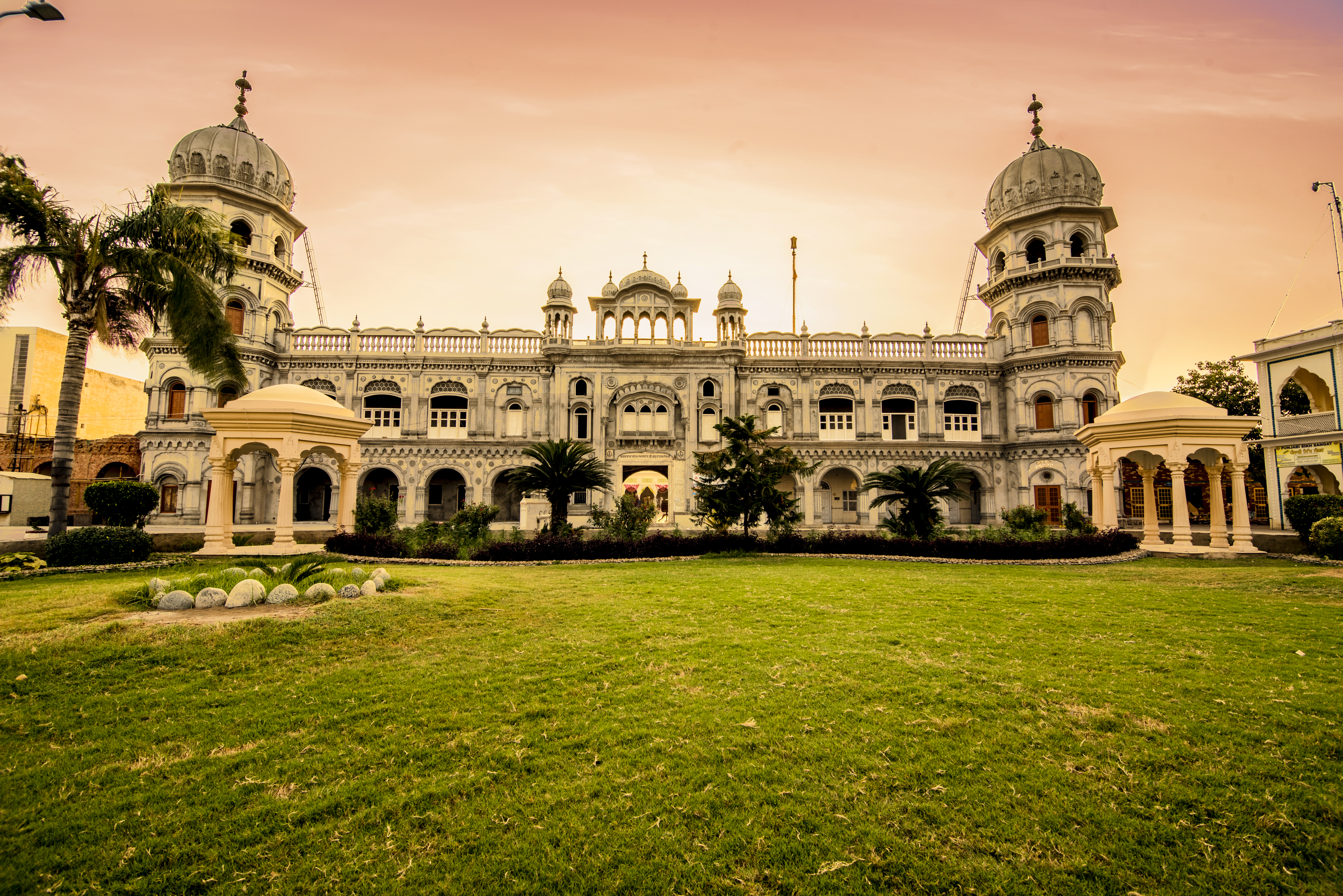 Gurdwara Janam Asthan This is a photo of a monument in Pakistan identified as the PB-U-44